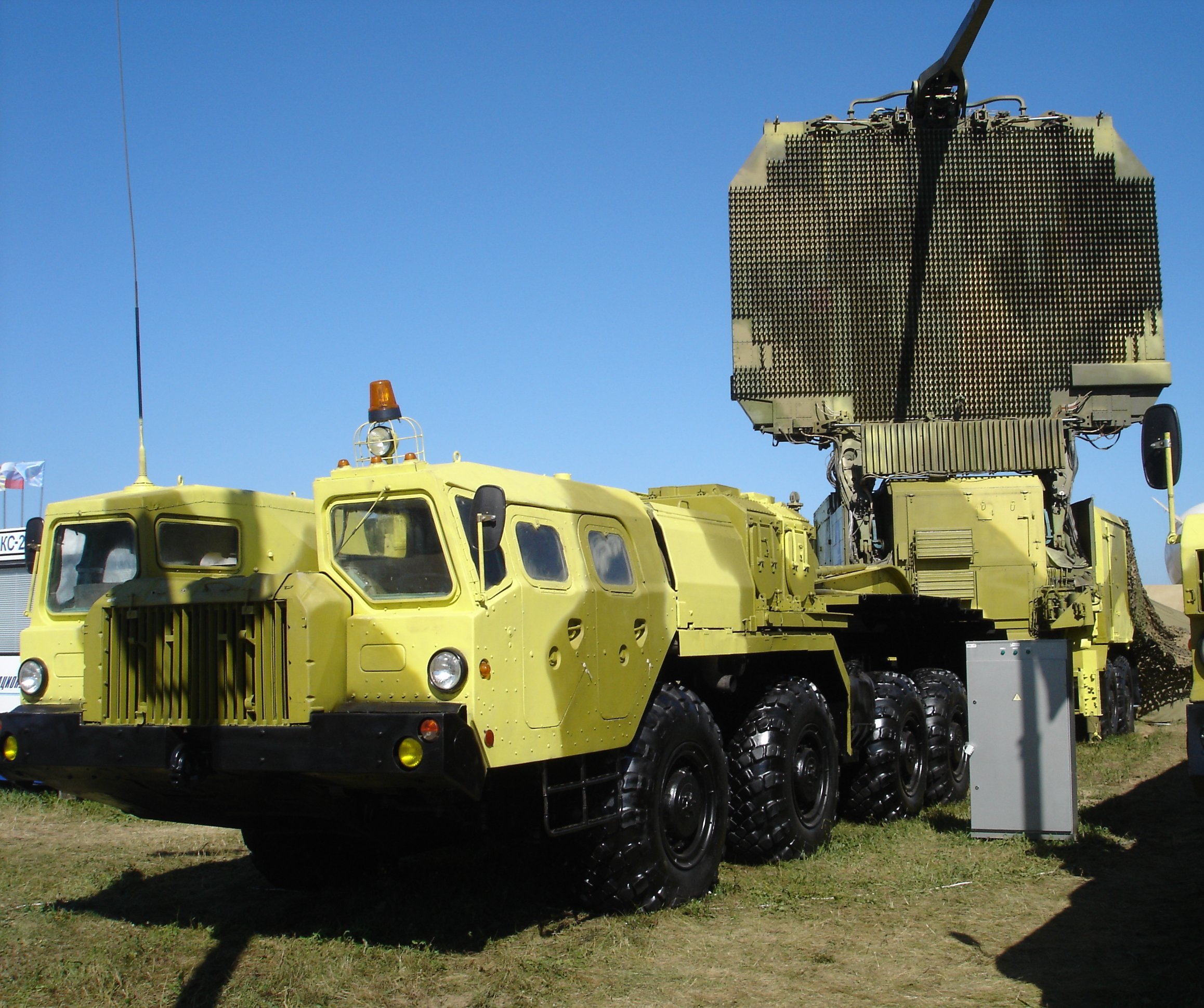 S-300PMU2 "Favorit" 64N6E2 acquisition radar (part of 83M6E2 command post) MAKS, Zhukovskiy, 2005.